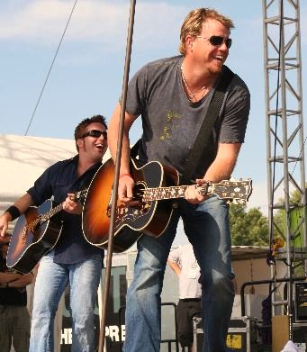 Country star Pat Green performs at the B93 Birthday Bash in June 2008. This is a cropped, shrunken, and slightly retouched version of the original image.